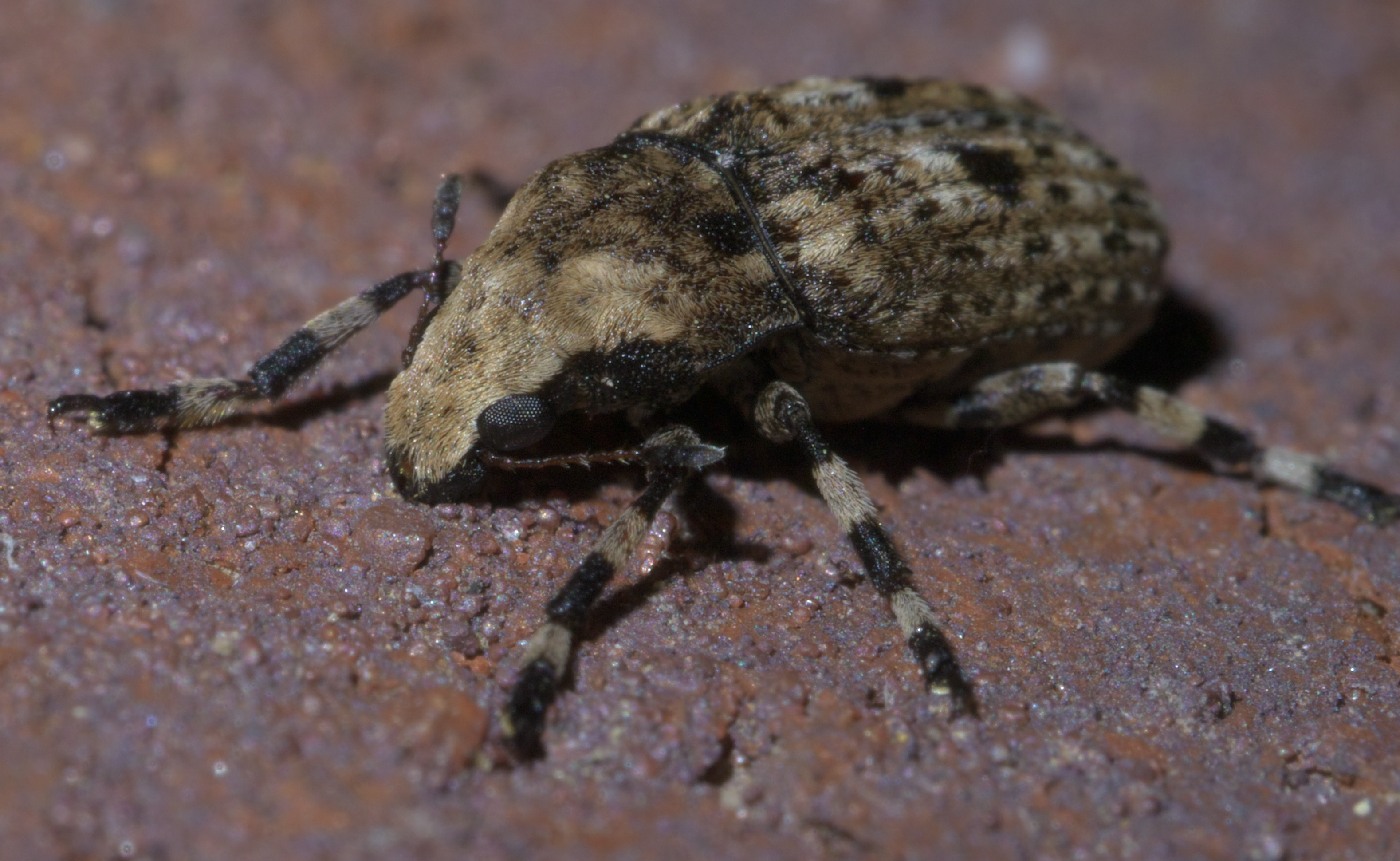 Euparius marmoreus, Genus: Fungus weevil, ID Confidence: 88